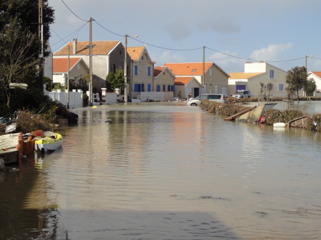 One street of Fouras (France) after Xynthia.